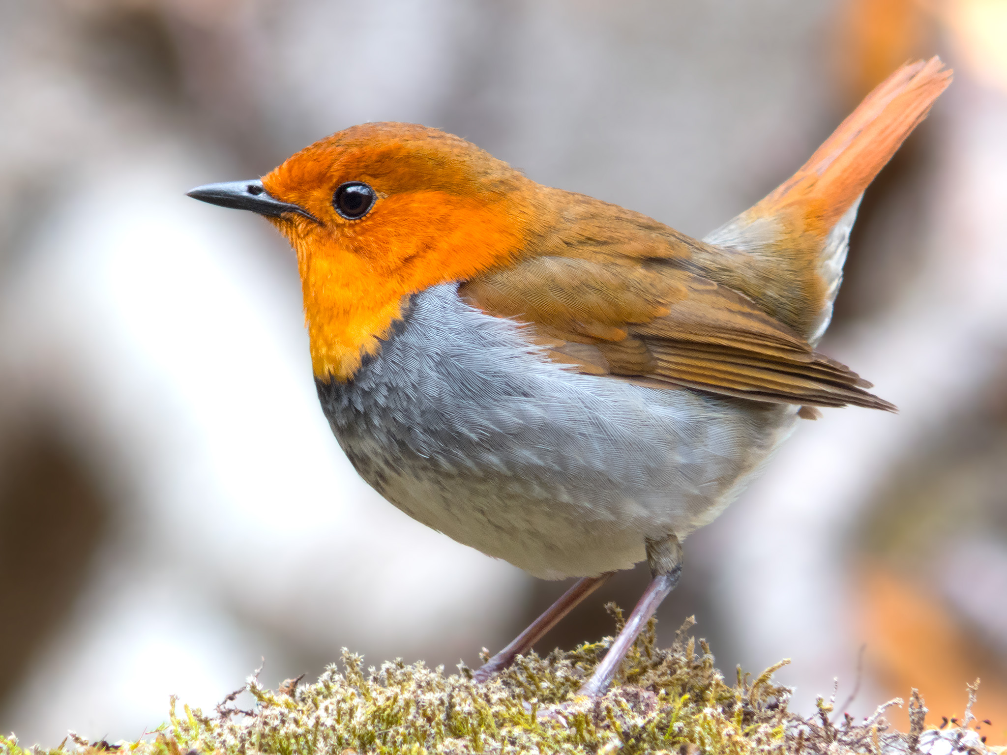 Erithacus akahige,Japanese Robin,in Hokkaido,Japan.